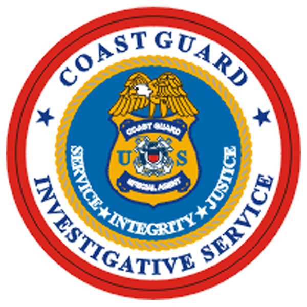 Coast Guard Investigative Service, the investigative and protective arm of the United States Coast Guard.